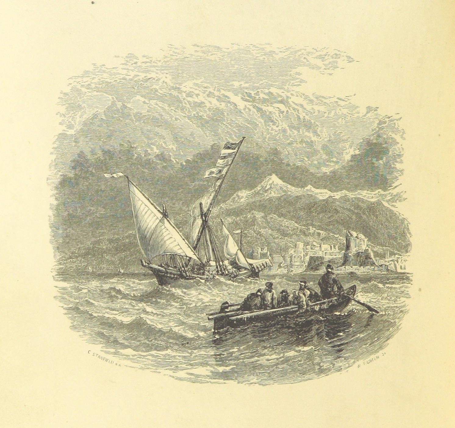 Image taken from: Title: "[Poems ... Tenth edition.]", "Poems, 1842" Author: TENNYSON, Alfred - Baron Tennyson Contributor: Creswick, Thomas Contributor: Horsley, John Callcott Contributor: Hunt, William Holman Contributor: MACLISE, Daniel. Contributor: MILLAIS, John Everett - Sir, Bart Contributor: MULREADY, William. Contributor: STANFIELD, William Clarkson. Shelfmark: "British Library HMNTS 11647.e.59." Page: 292 Place of Publishing: London Date of Publishing: 1857 Publisher: E. Moxon Edition: [Another edition.] Poems. [With illustrations by Thomas Creswick, John Everett Millais, William Holman Hunt, William Mulready, John Callcott Horsley, Dante Gabriel Rossetti, Clarkson Stanfield, and Daniel Maclise.] Issuance: monographic Identifier: 003599197 Explore: Find this item in the British Library catalogue, 'Explore'. Download the PDF for this book (volume: 0) Image found on book scan 292 (NB not necessarily a page number) Download the OCR-derived text for this volume: (plain text) or (json) Click here to see all the illustrations in this book and click here to browse other illustrations published in books in the same year. Order a higher quality version from here.